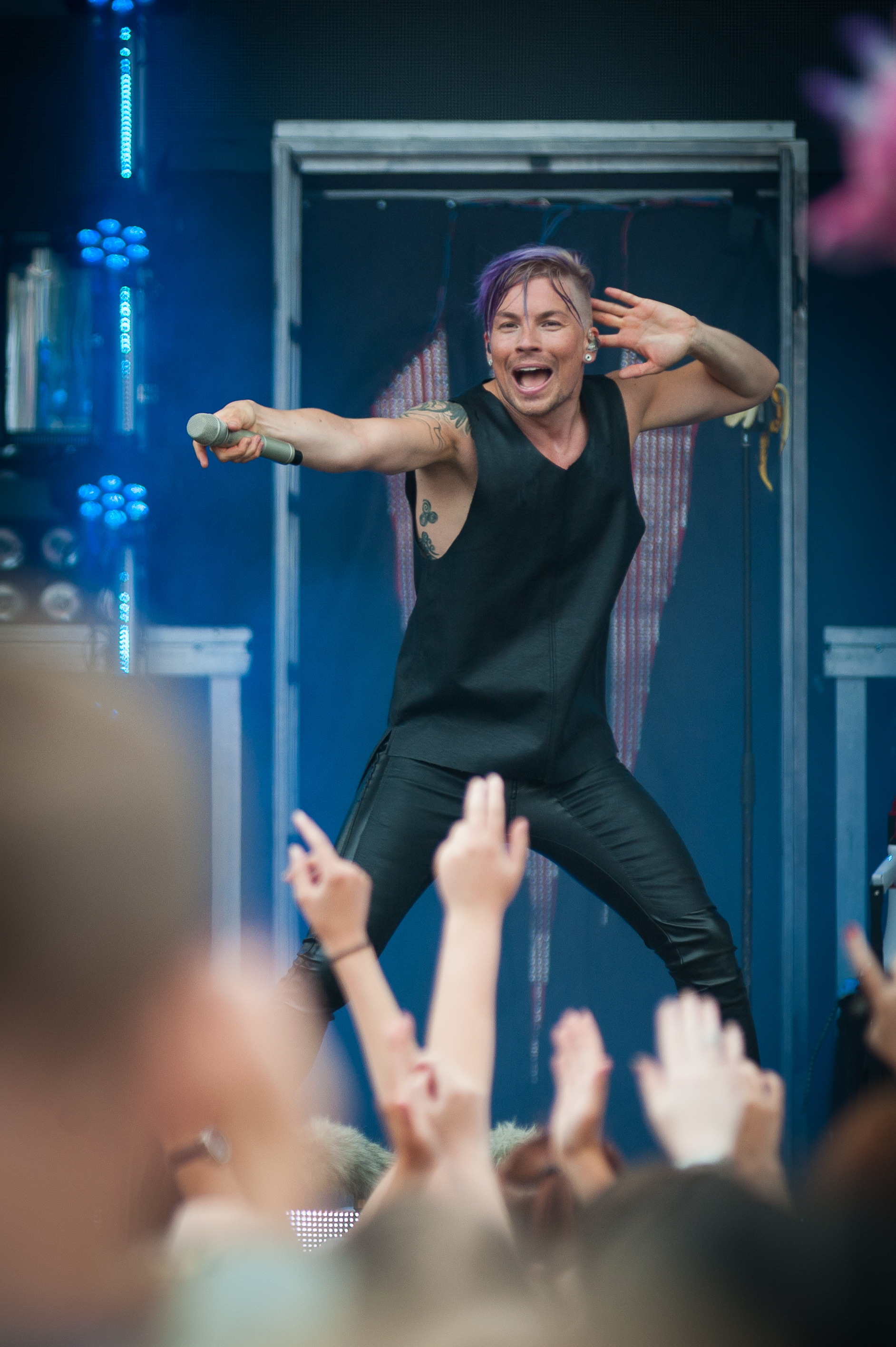 Finnish vocalist Antti Tuisku performing at YleXPop event in Lahti, Finland on the 4th of June, 2016.